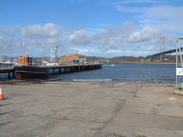 Port Edgar Marina A former first world war destroyer base, now a marina and sailing school.